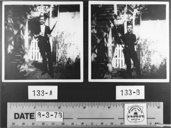 Two photographs of Lee Harvey Oswald holding his Mannlicher-Carcano rifle, his pistol, and two newspapers, in his backyard in Dallas, Texas. JFK Exhibit F-179